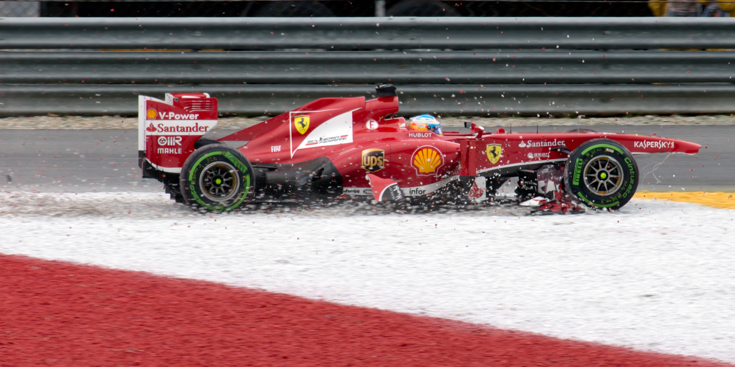 Formula One 2013 Rd.2 Malaysian GP: Paul di Resta (Force India) on gravel on lap 2.